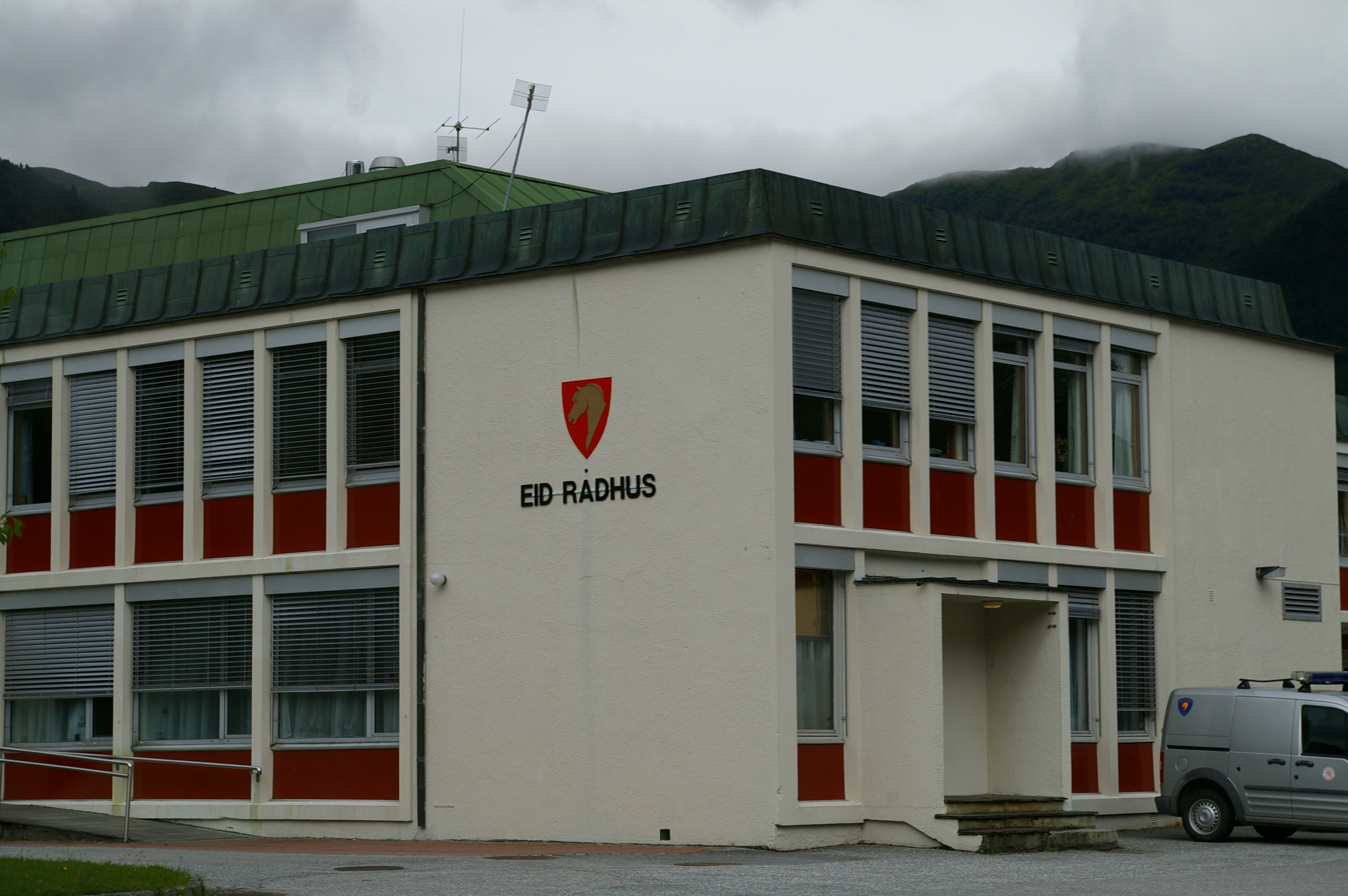 Eid town hall in Eid municipality, Sogn og Fjordane, Norway